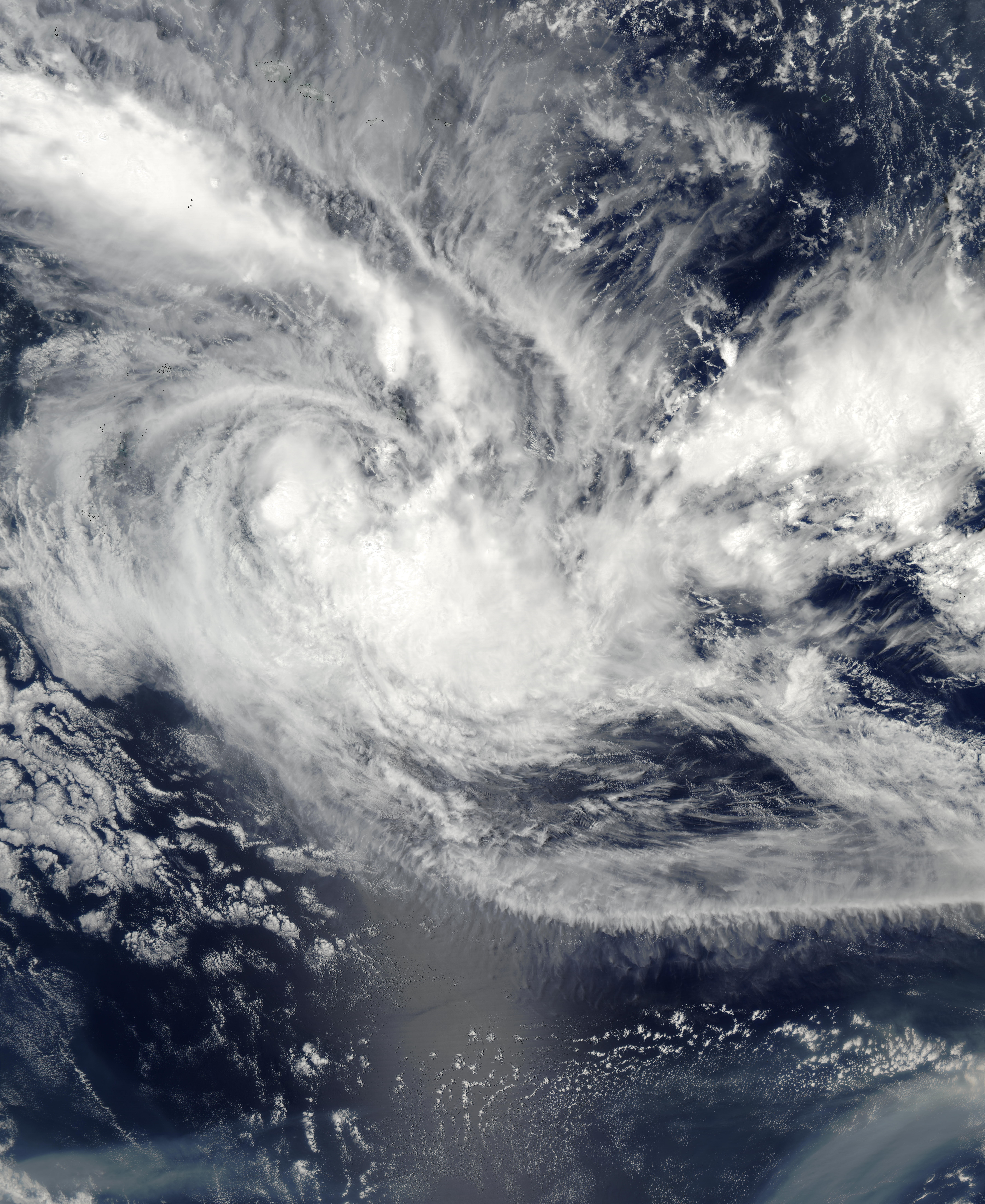 This true-color image from the MODIS instrument on NASA’s Aqua spacecraft shows Tropical Cyclone Cilla located south of Samoa on Jan. 28. Maximum sustained winds on the 27th were near 40 mph and Cilla was expected to slowly transition to an extratropical system as it moved to the south.